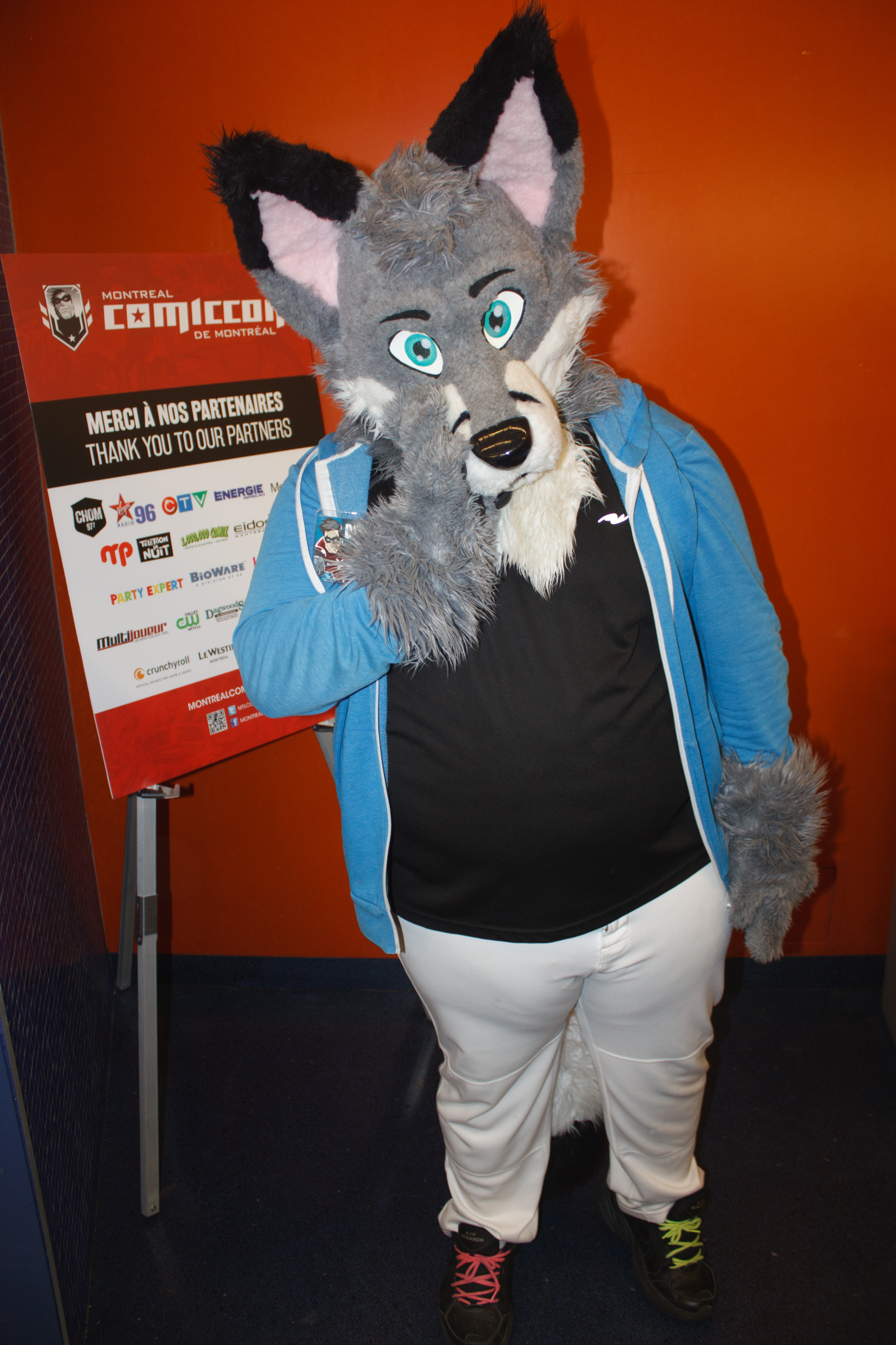 Cosplay on Saturday, day two, of the Montreal Comiccon 2016.